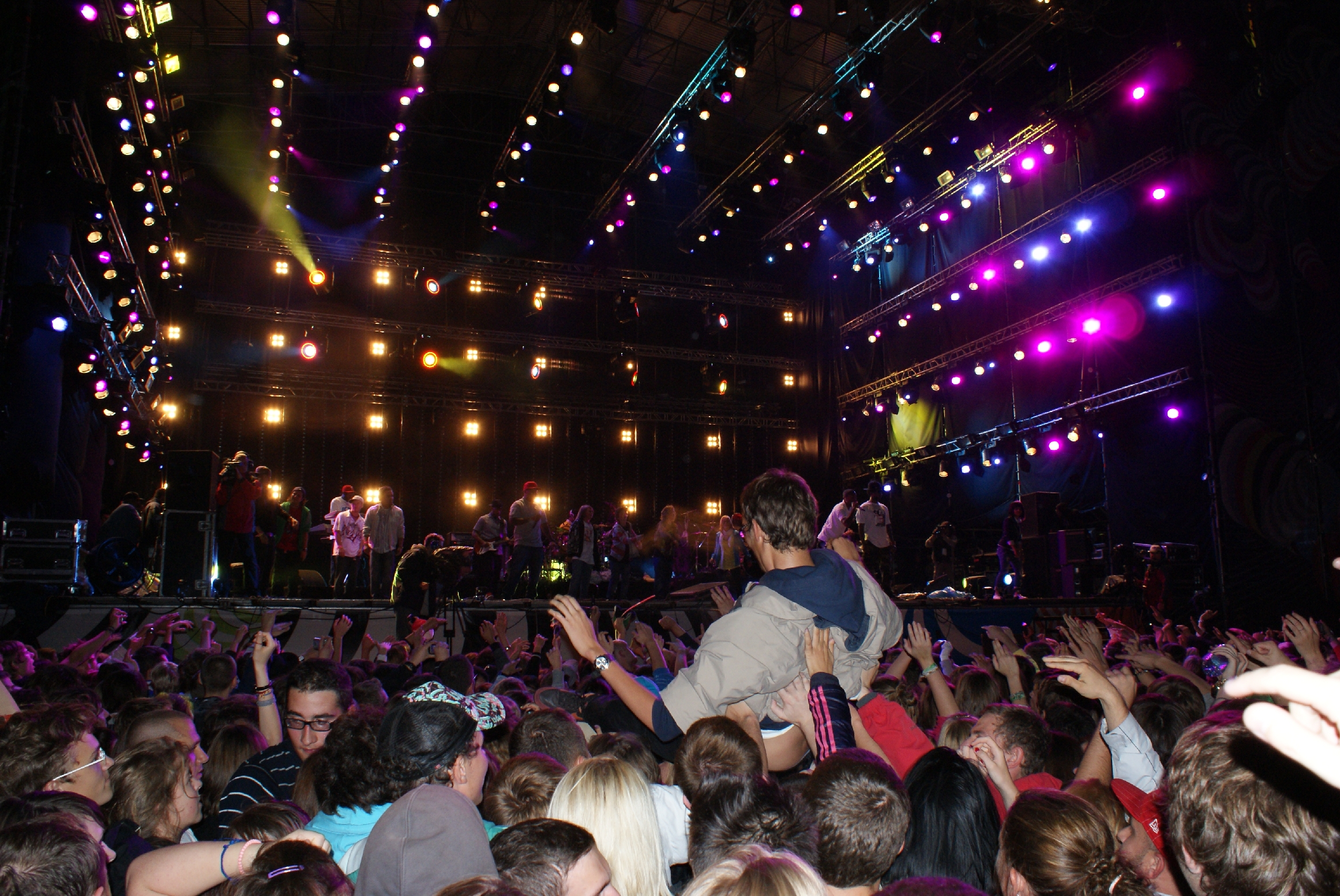 Orange Warsaw Festival 2009, Pl. Defilad, Warsaw, PolandN.E.R.D